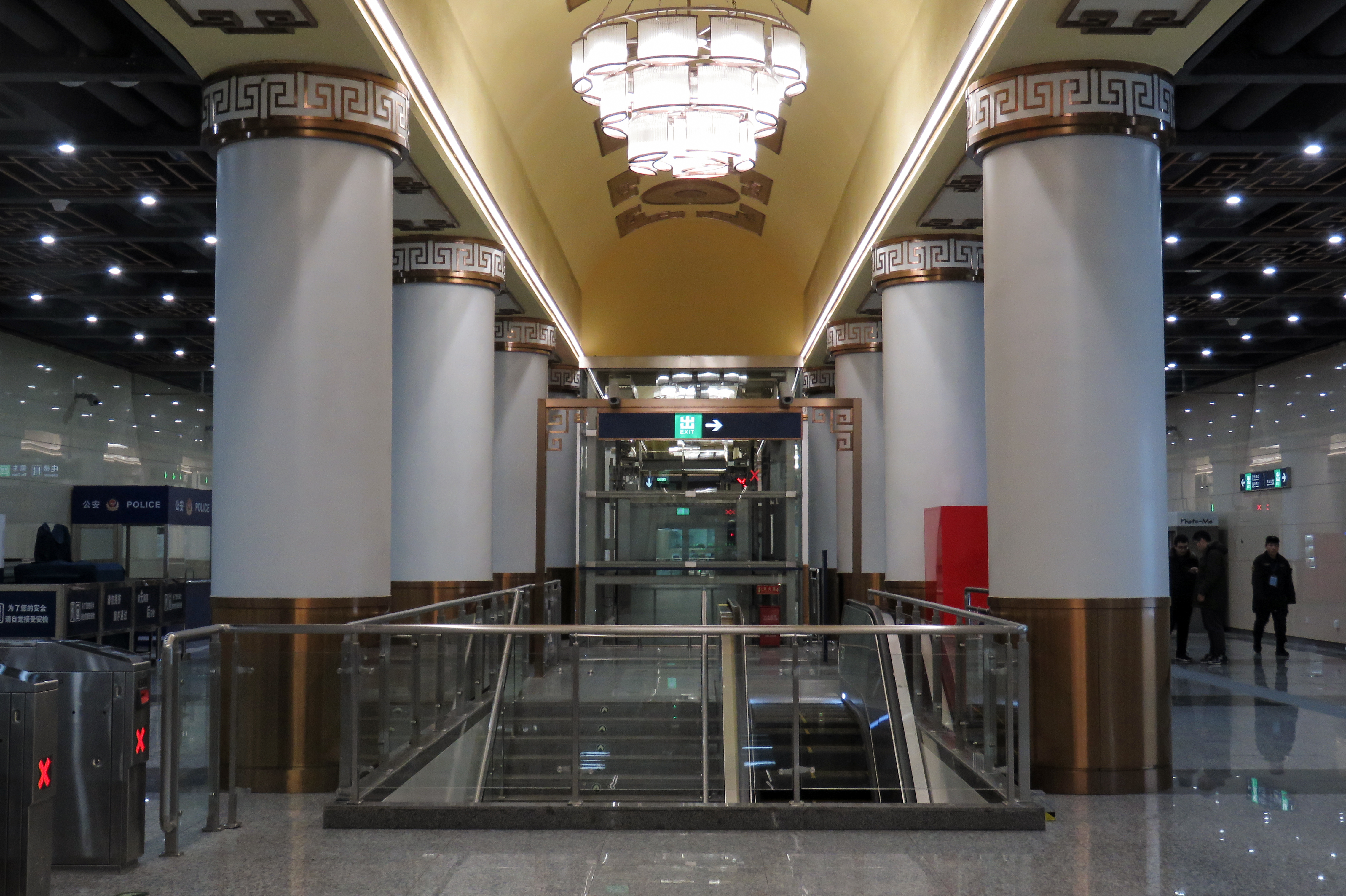 No murals, still.